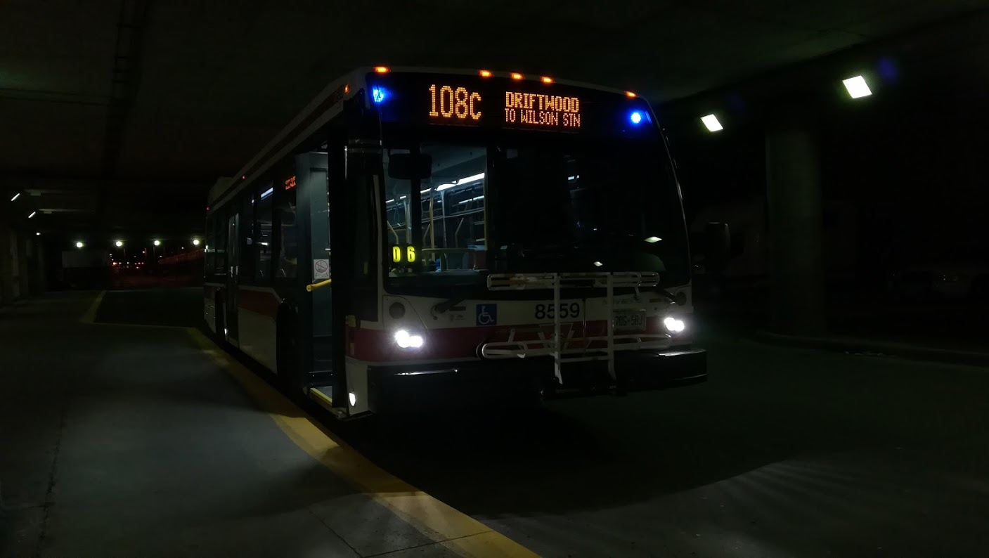 108C Driftwood extended to Wilson station